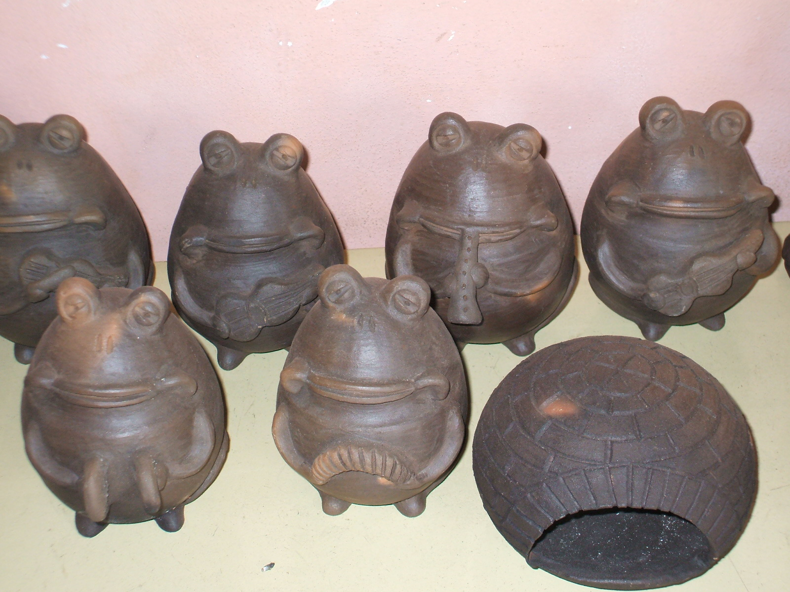 Magnificent ceramic works. Rosa Britez.